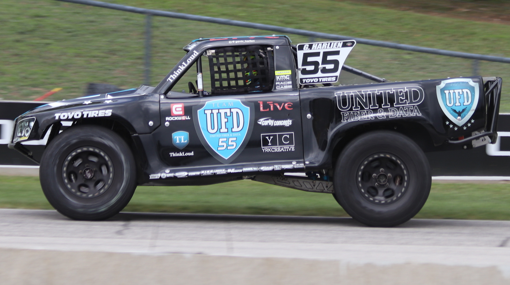 The 2018 Speed Energy Formula Off-Road truck of Gavin Harlien at Road America